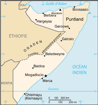 translation